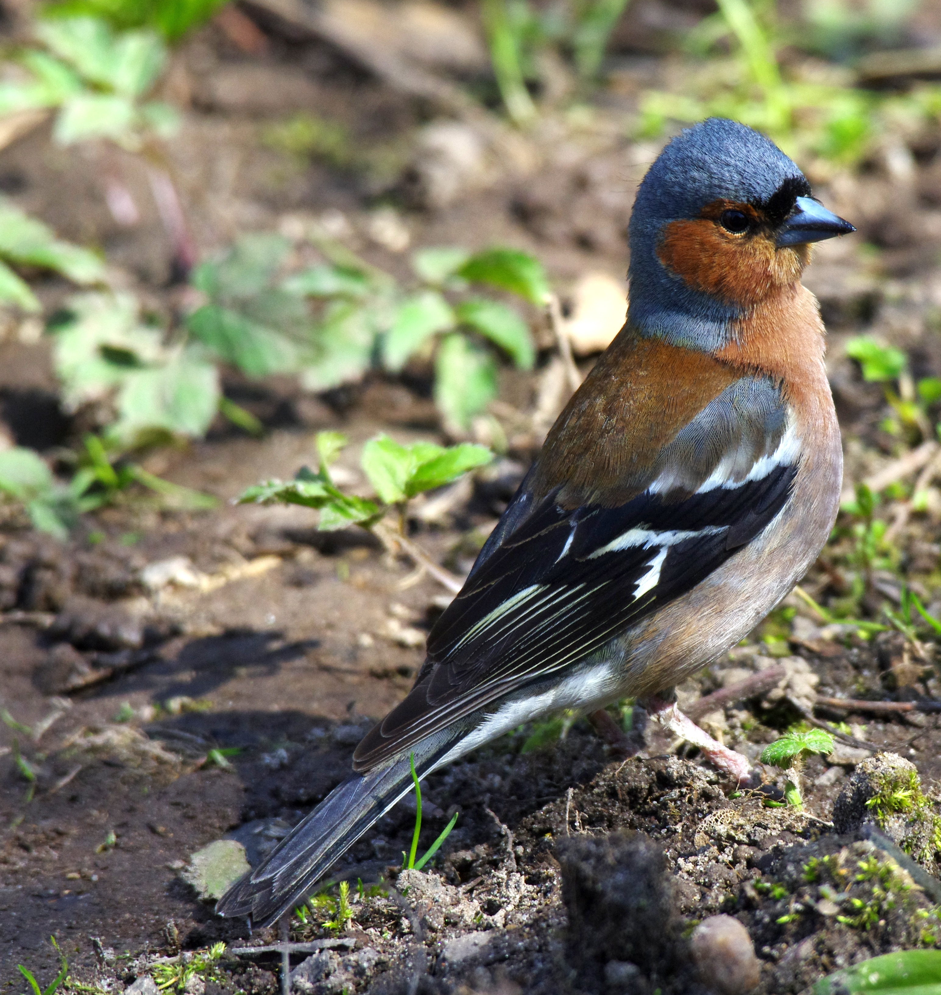 Male Chaffinch, Kaluga Oblast, Russia